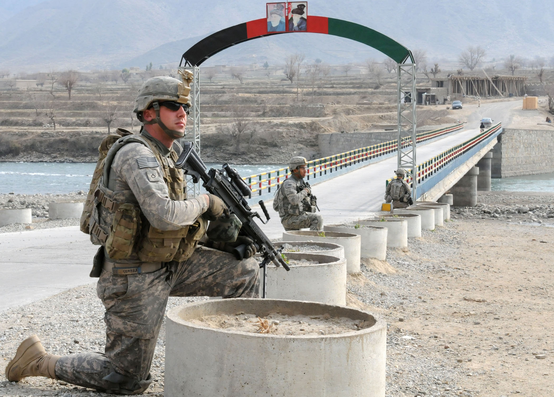 At left, U.S. Army Pfc. Charles W. Preuss of Brooklyn, N.Y., a Squad Automatic Weapon gunner with 2nd platoon, Headquarters Company, 2nd Battalion, 503rd Parachute Infantry Regiment, 173rd Airborne Brigade Combat Team, pulls security during a International Security Assistance Force assessment of the Marawara bridge, Jan. 20. ISAF is working to help the government of Afghanistan improve their infrastructure. (Photo ID: 255523)